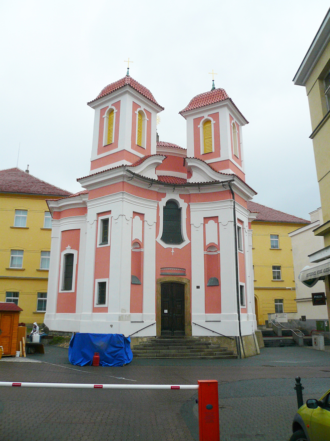 St. Florian's chapel, Kladno